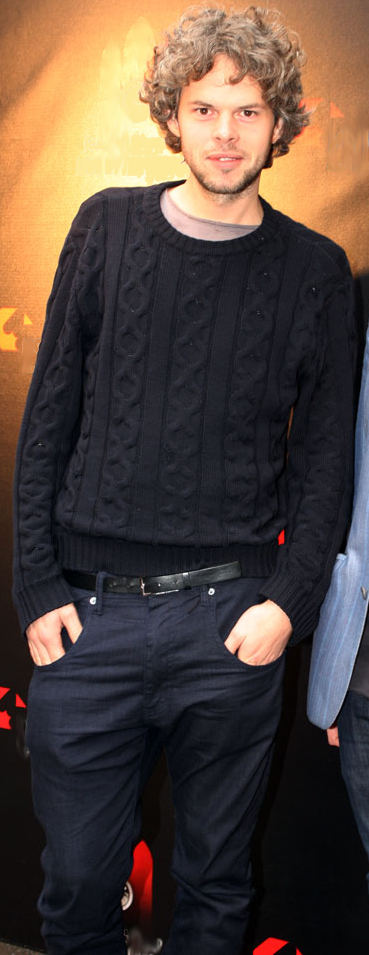 A photo of Nick Littlemore at a media party prior to a gig Live at the Chapel held at St Stephens Church, Newtown, New South Wales.